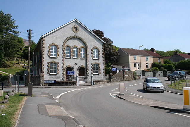 Ebenezer Congregational Chapel at Dunvant / Dyfnant, near Swansea